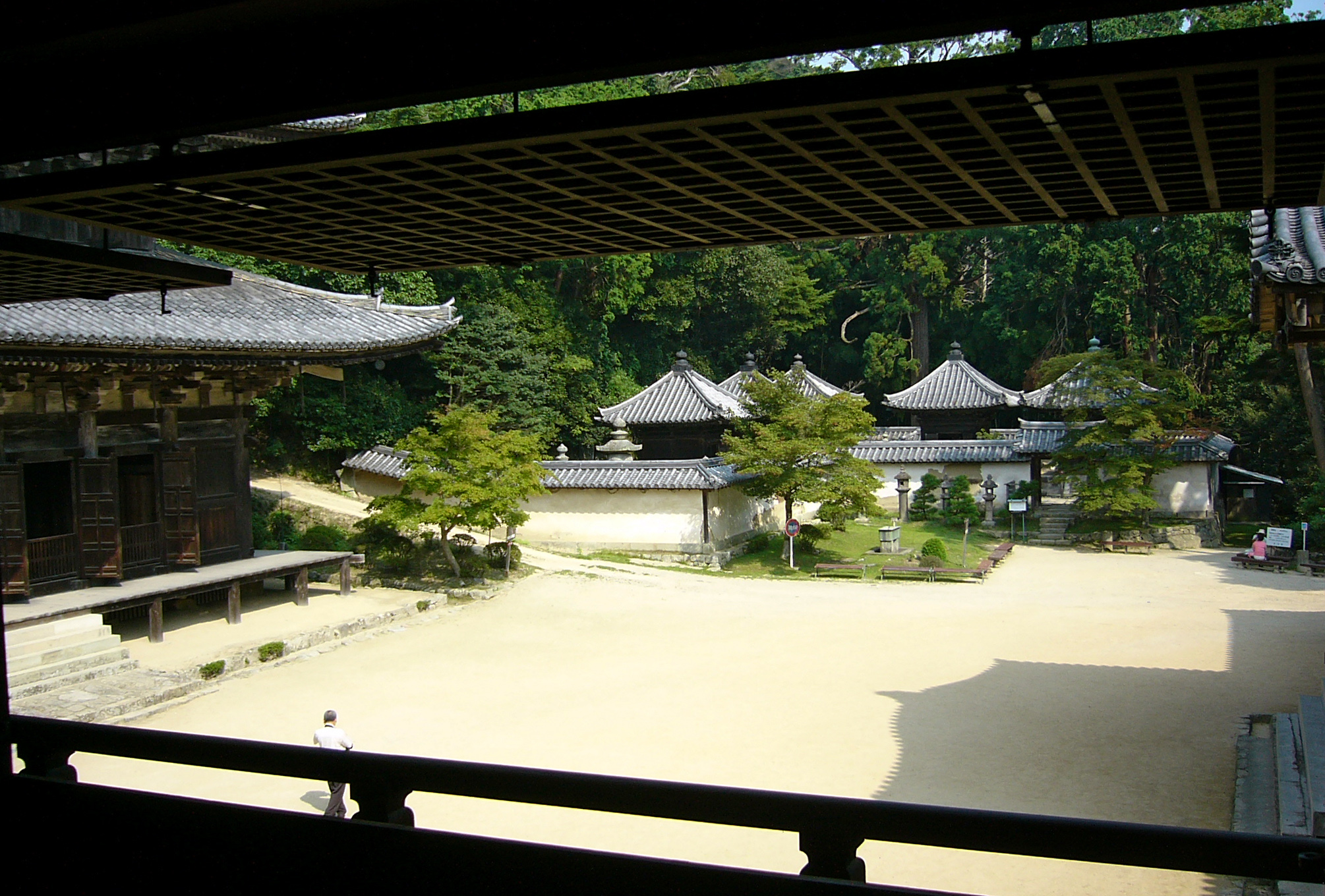 The Tomb of the Hondas in Engyoji, Himeji, Hyogo prefecture, Japan